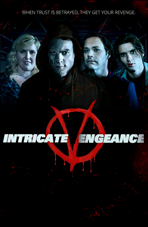 This is a promotional poster image for the television pilot Intricate Vengeance (2016)